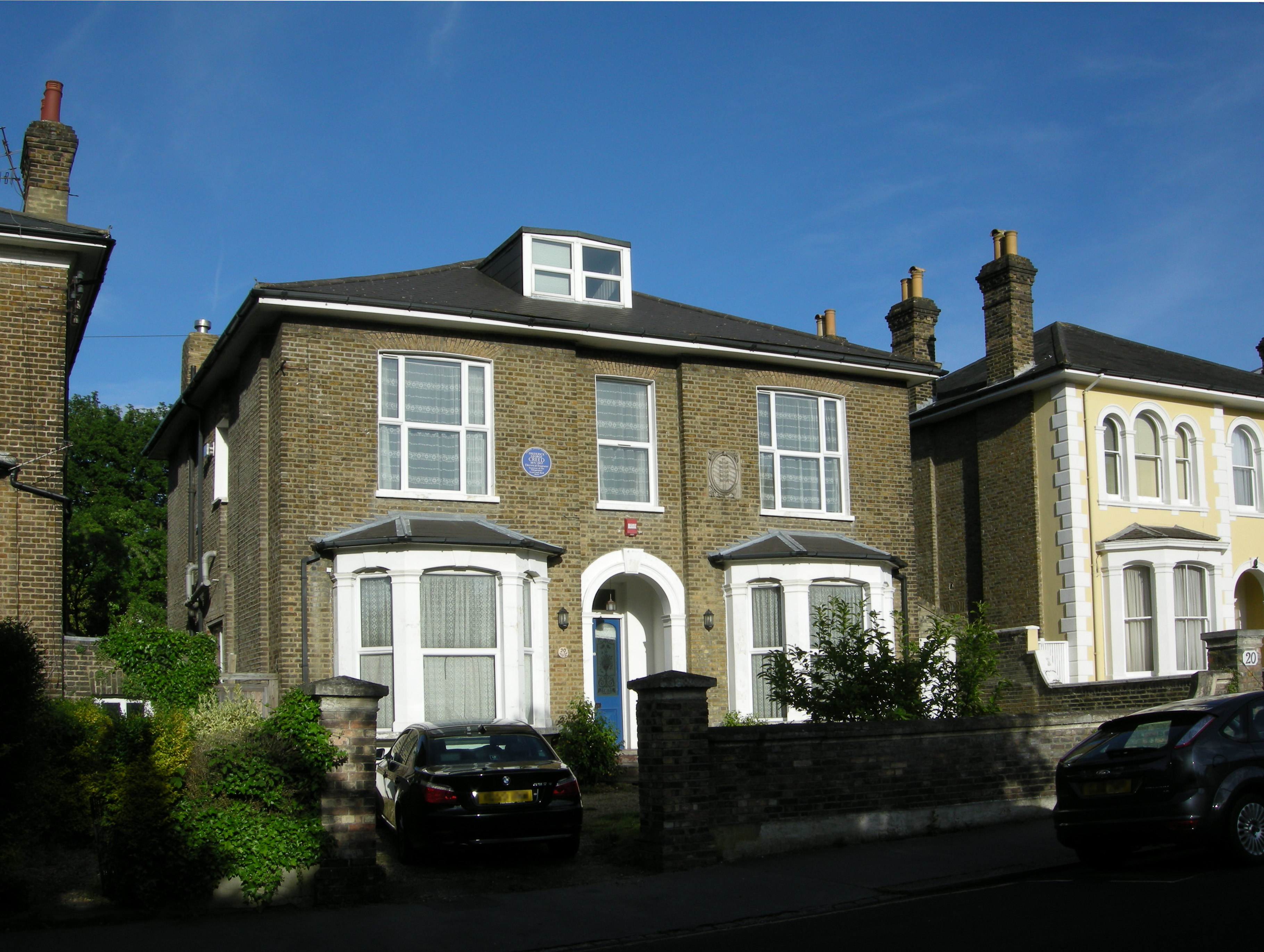 20 Outram Road, Addiscombe, Croydon, Greater London: former home of Frederick G. Creed